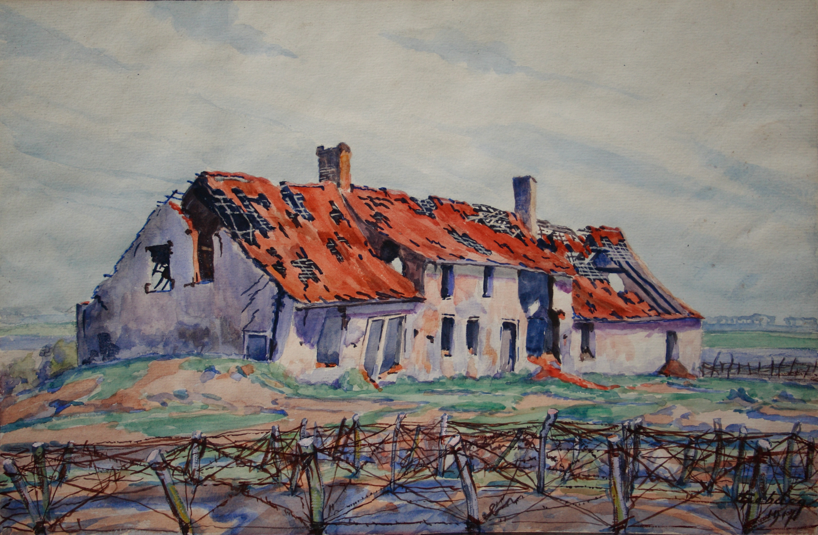 The Shelled House (Flanders Front 1917) by Georges Emile Lebacq. Watercolour.